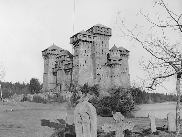 The castle used in the Film Singoalla from 1949